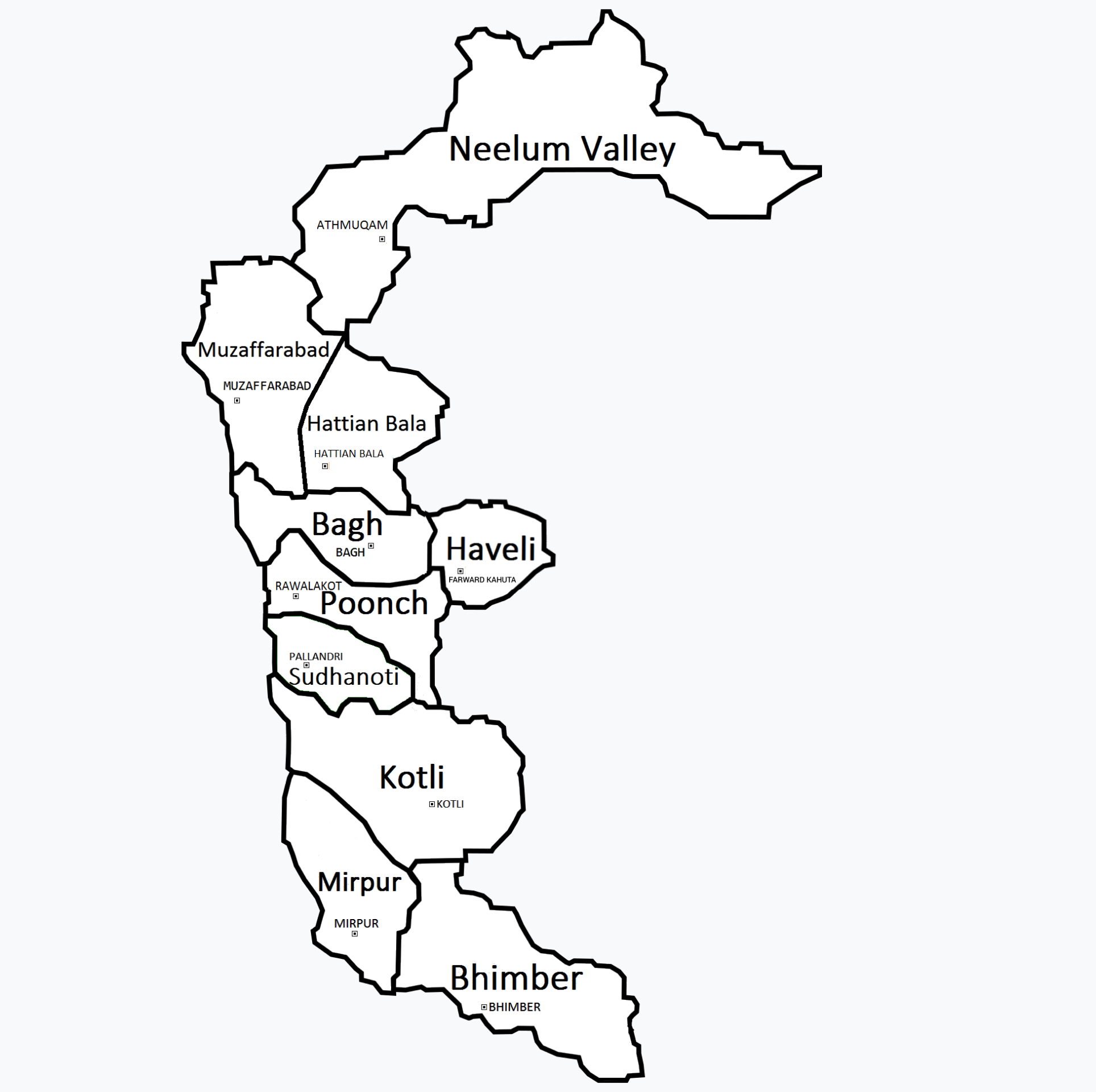 Map of AK with ten districts and their capitals mentioned